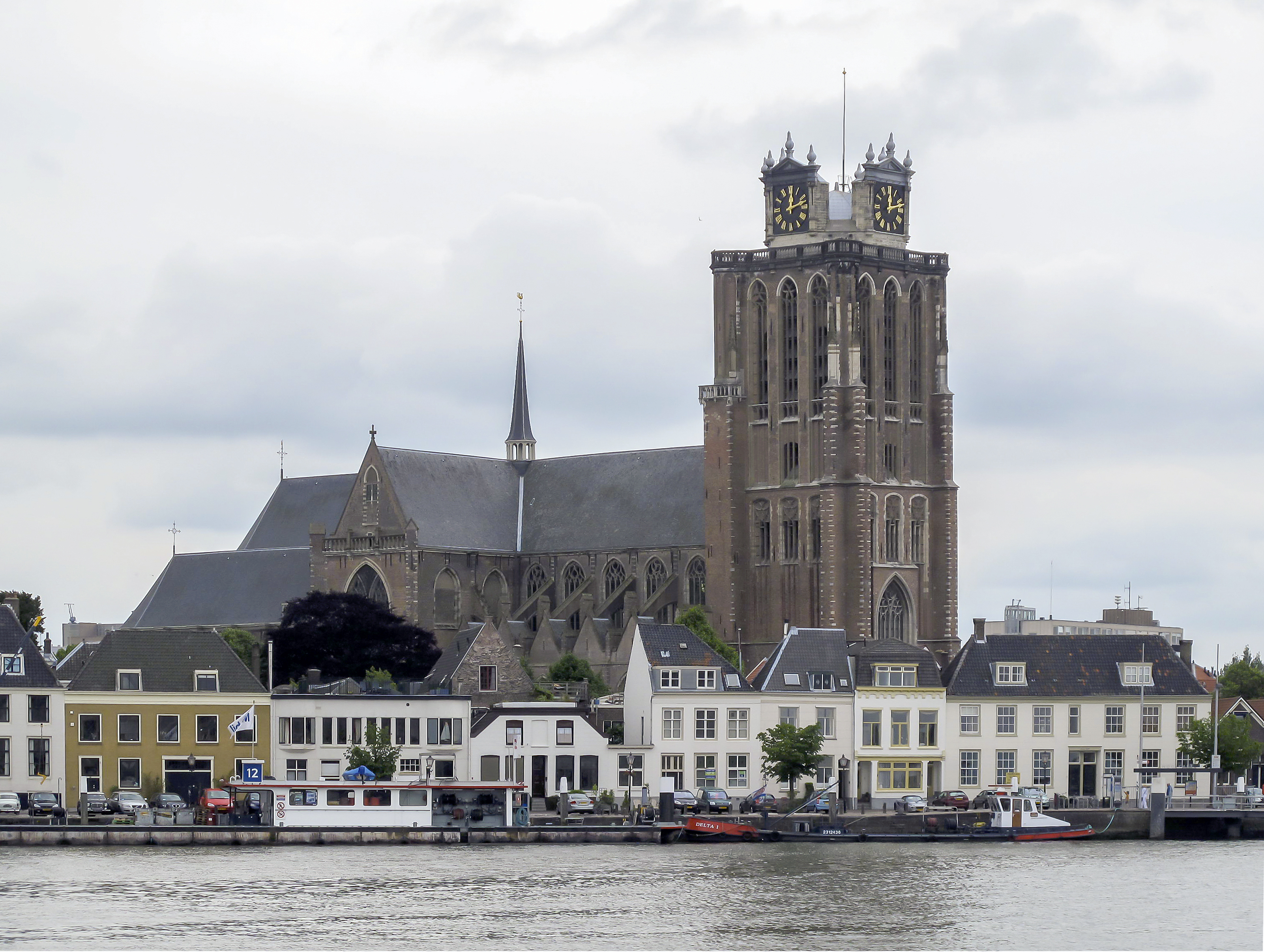 Dordrecht, church: Grote Kerk